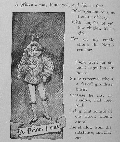 Picture from 1890 edition of the Princess